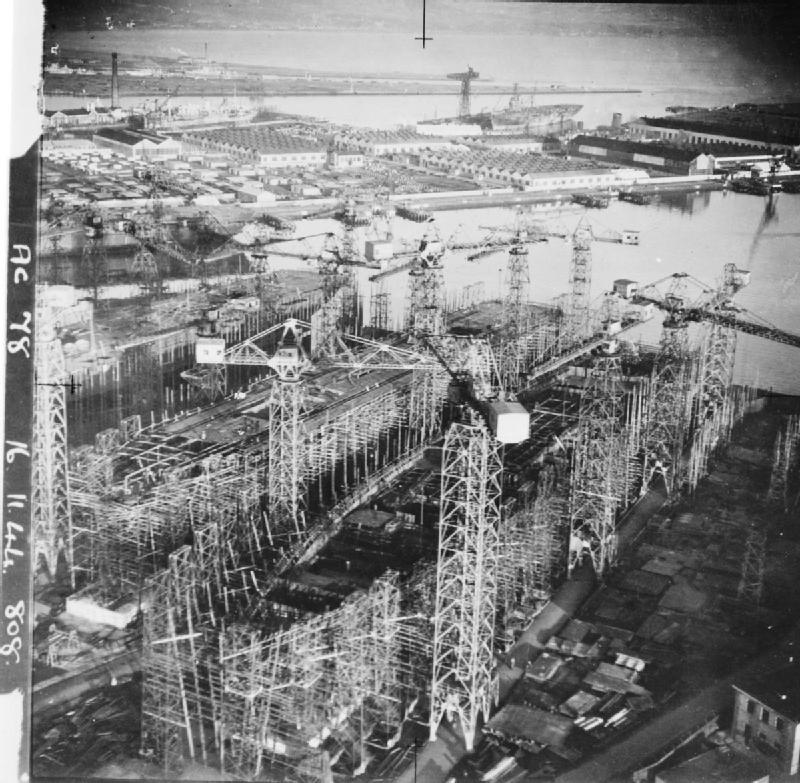 Shipbuilding in Belfast, Northern Ireland, November 1944. Looking down on Harland and Wolff's Musgrave shipyard showing two new carriers (left) HMS MAGNIFICENT and POWERFUL, and a cruiser on the stocks.